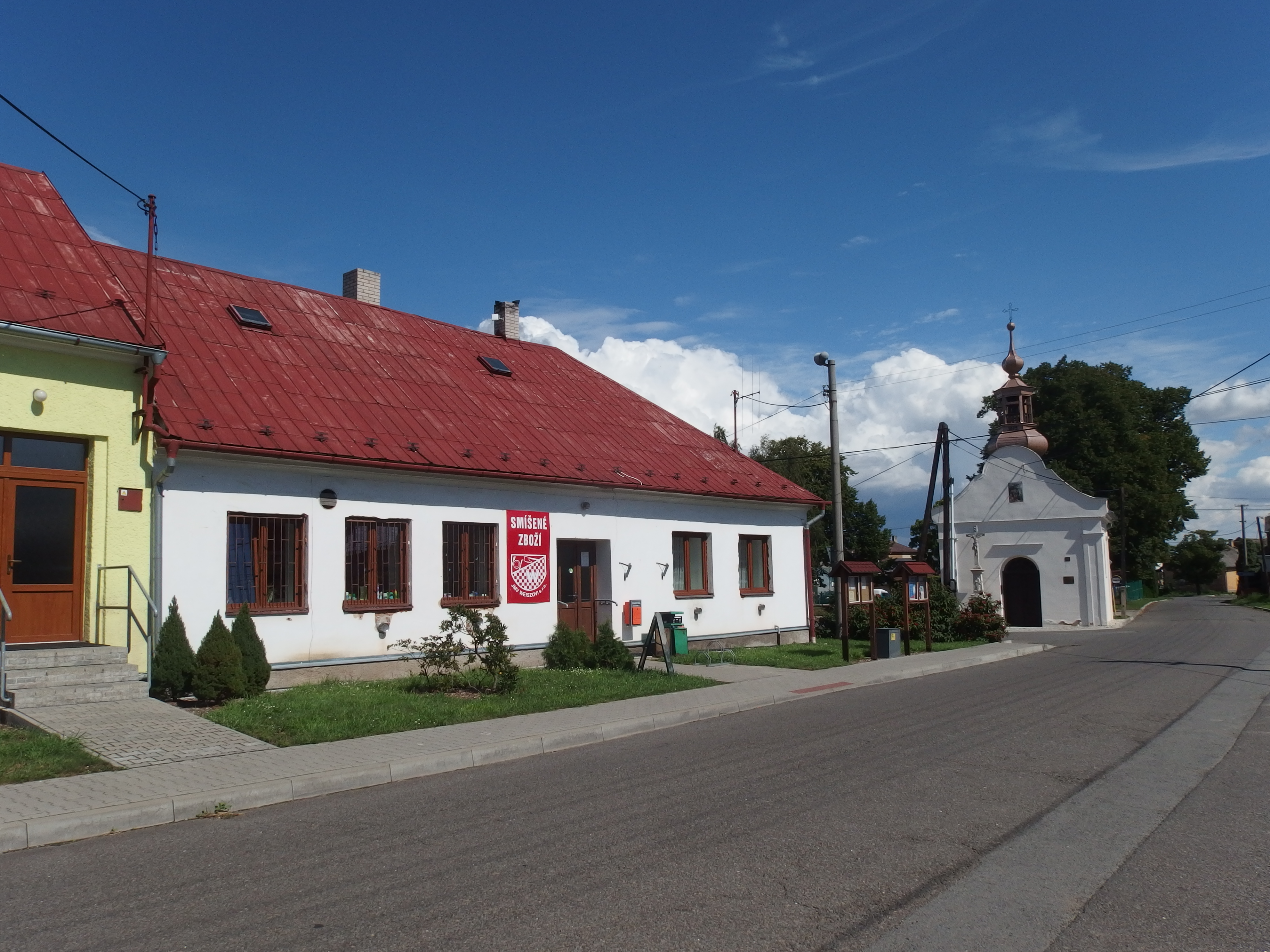 Stěbořice, Opava District, Czech Republic, part Jamnice.